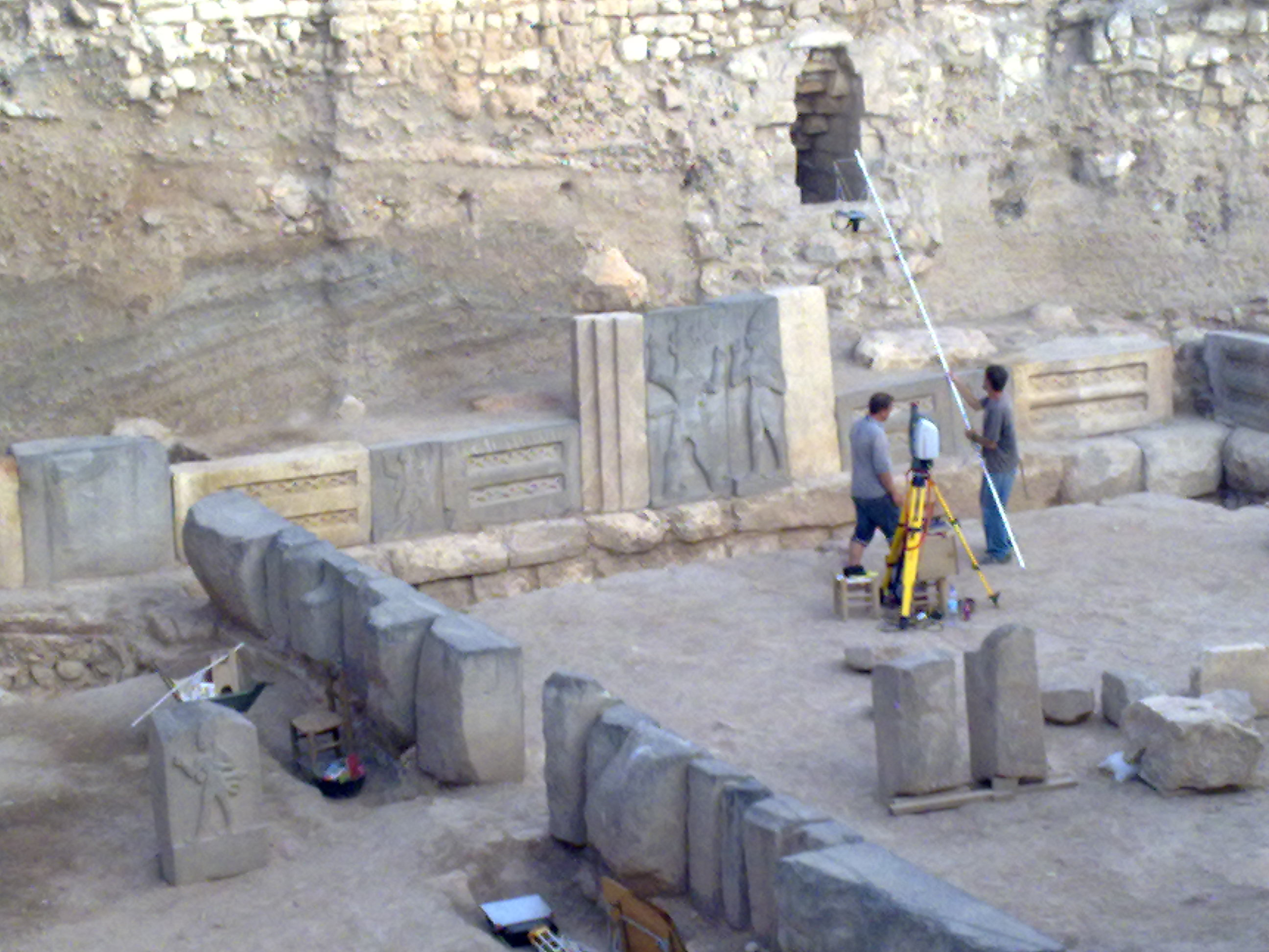 One of the archaeological workshops operate in the castle of Aleppo